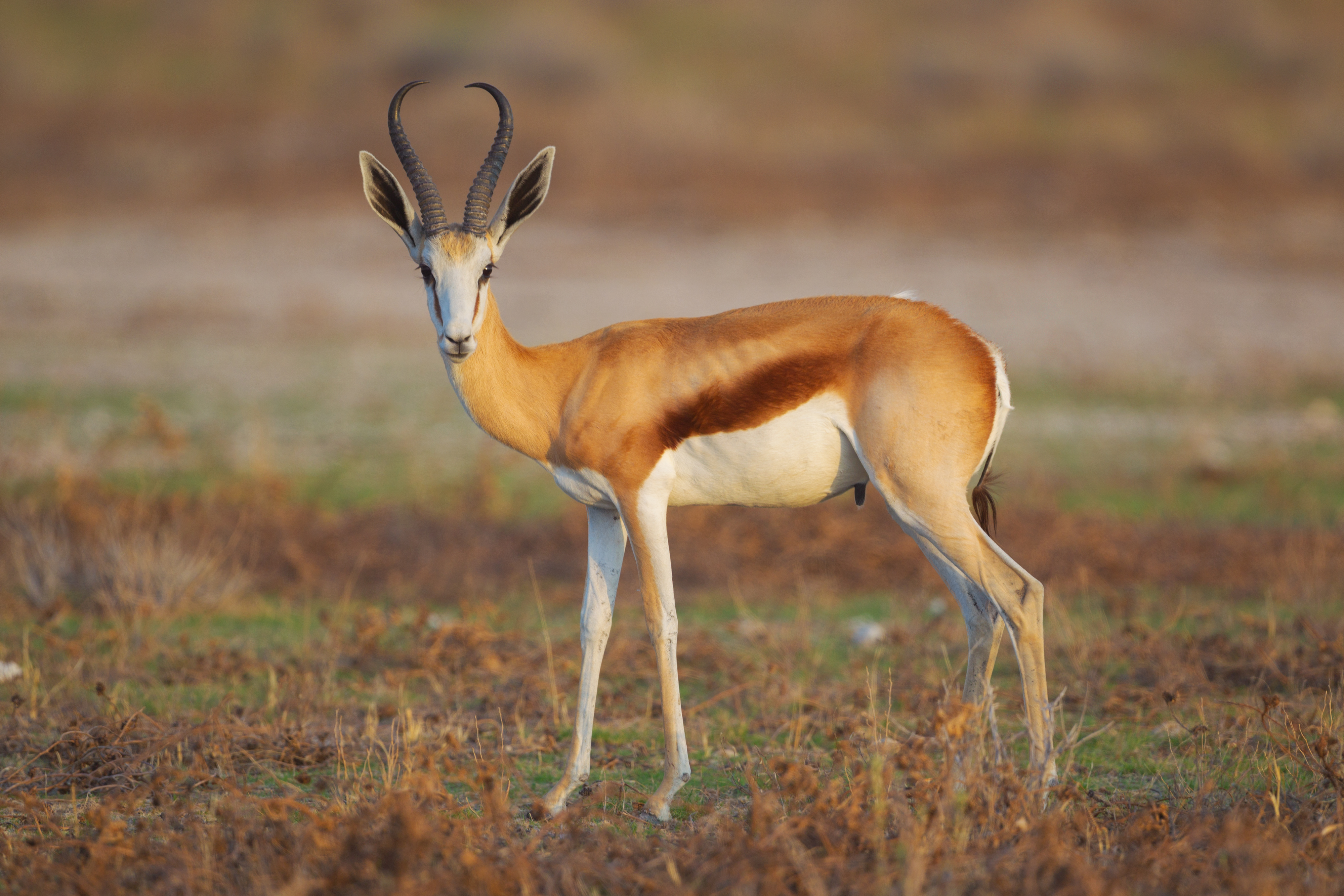 Adult springbok (Antidorcas marsupialis) male in Etosha National Park